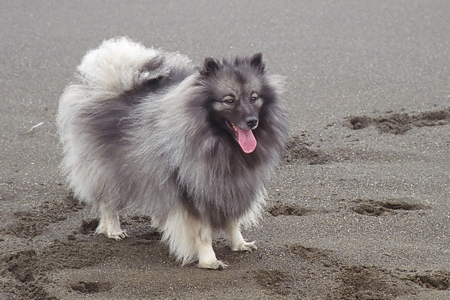 A female Keeshond.